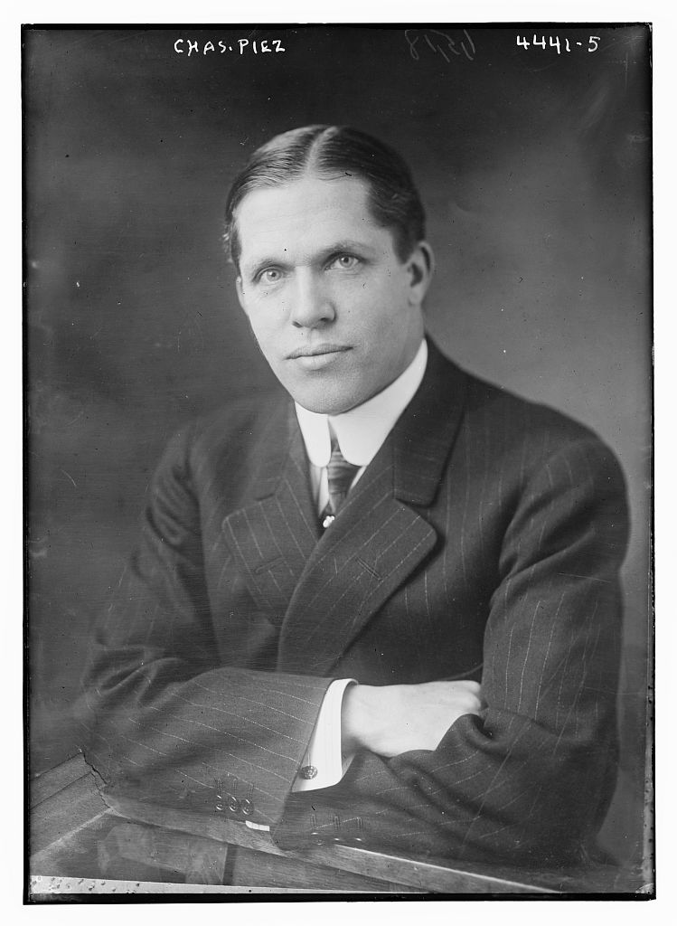 Bain News Service,, publisher. Chas. Piez [between ca. 1915 and ca. 1920] 1 negative : glass ; 5 x 7 in. or smaller. Notes: Title from unverified data provided by the Bain News Service on the negatives or caption cards. Forms part of: George Grantham Bain Collection (Library of Congress). Format: Glass negatives. Repository: Library of Congress, Prints and Photographs Division, Washington, D.C. 20540 USA, General information about the Bain Collection is available at Higher resolution image is available (Persistent URL): Call Number: LC-B2- 4441-5